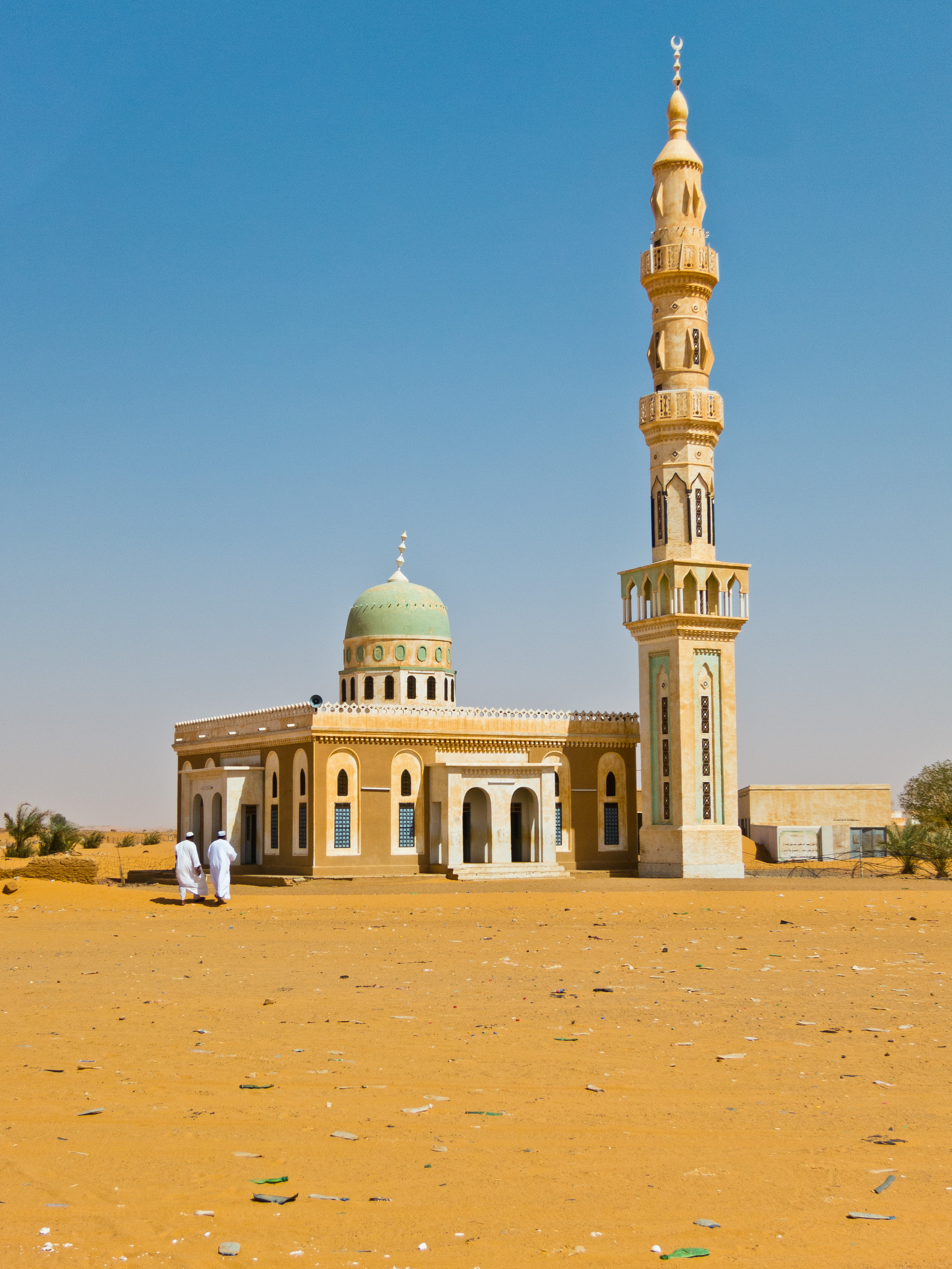 A mosque near a rest stop between Khartoum and Karima, Sudan.